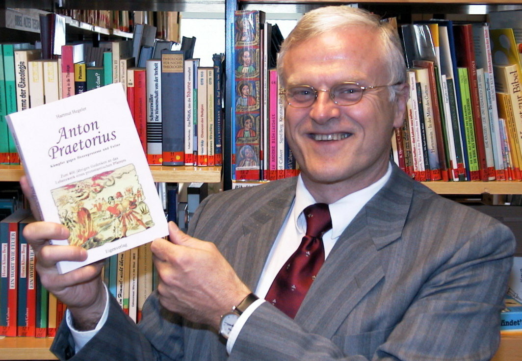 Hartmut Hegeler (* 11. Juni 1946), Unna